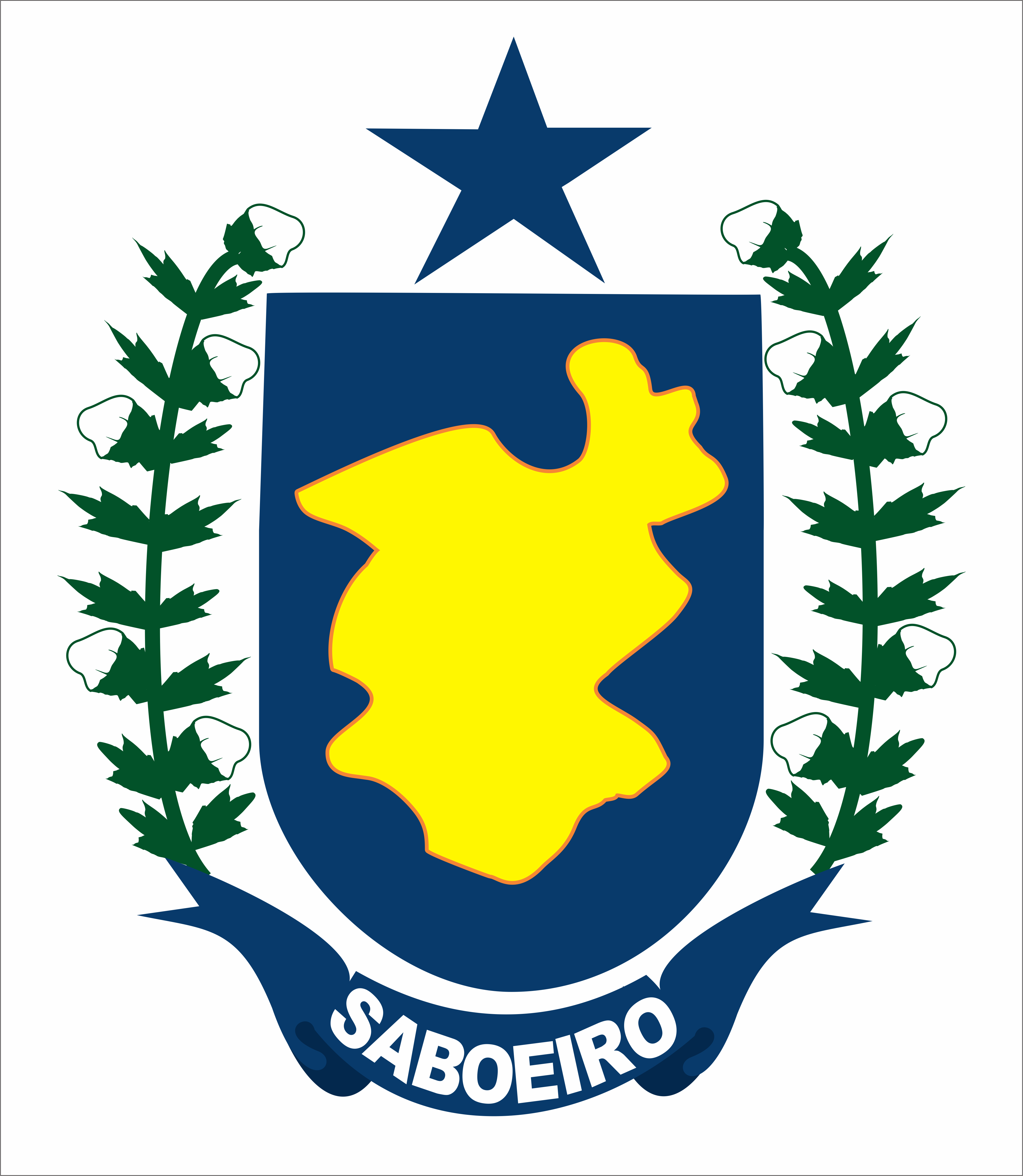 Official Coat of Arms of Saboeiro City in Ceará